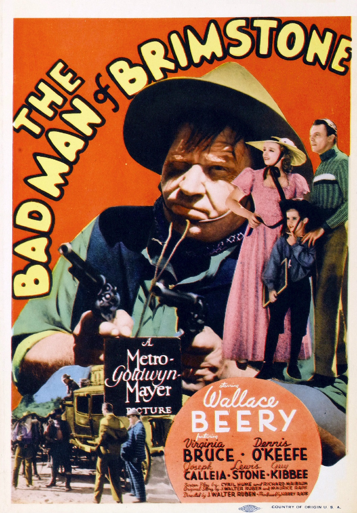 Window poster for the American western film The Bad Man of Brimstone (1937). The item has no copyright markings on it as can be seen in the links above. At lower right is a logo that indicates the poster was printed by a union print shop and Country of origin USA.